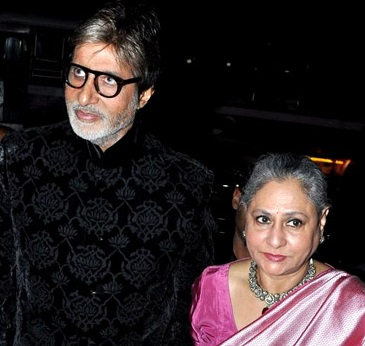 Amitabh and Jaya Bachchan at award function.